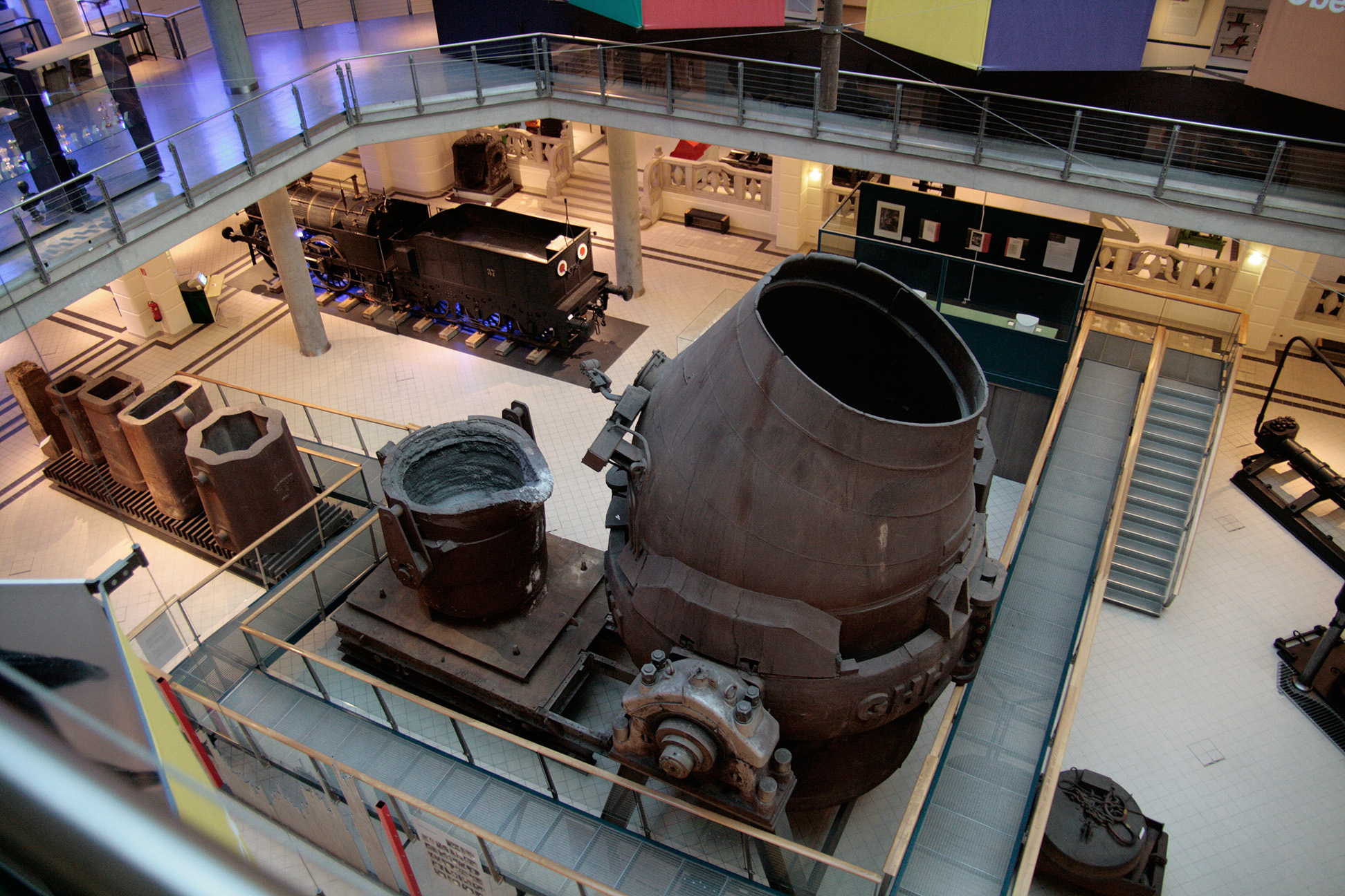 LD-converter from 1952 at the Vienna Technical Museum